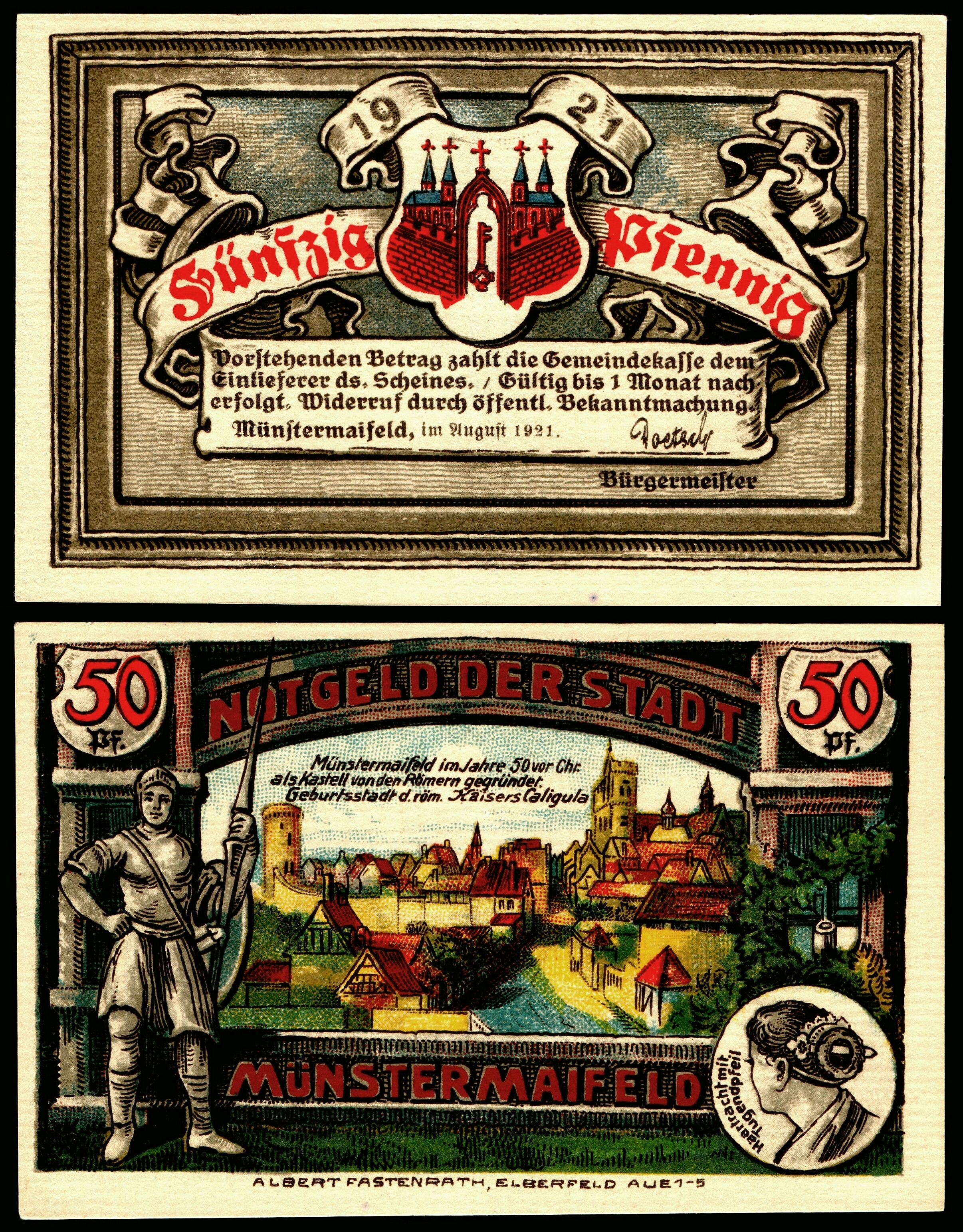 Notgeld banknote (German for "emergency money" or "necessity money"), 1921, 50 Pfennig, issued by the town of Münstermaifeld, Germany. Size: 98 mm x 63 mm.